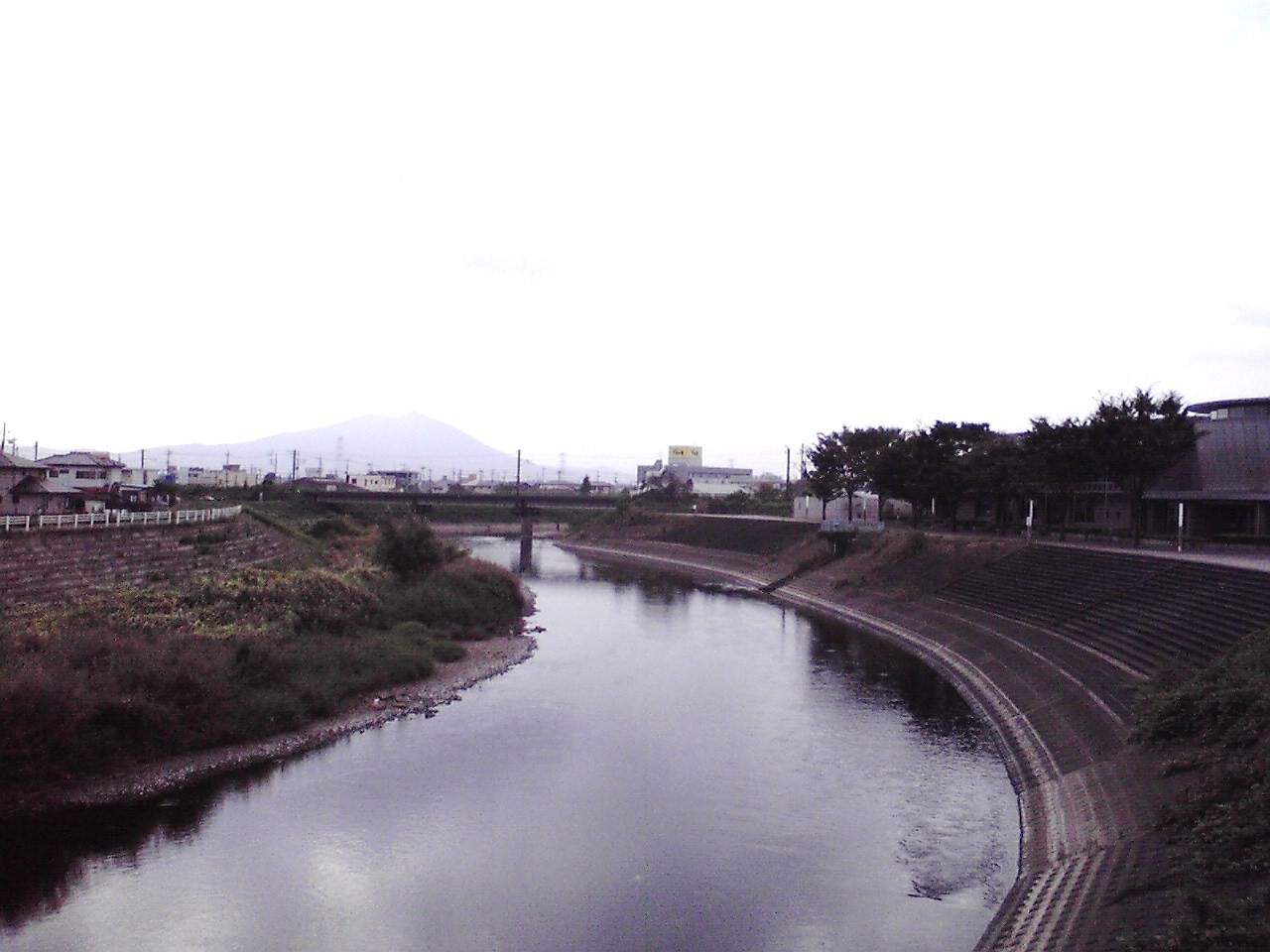 This is a landscape of river Gogyo in Japan.It was taken in Chikusei, Ibaraki.